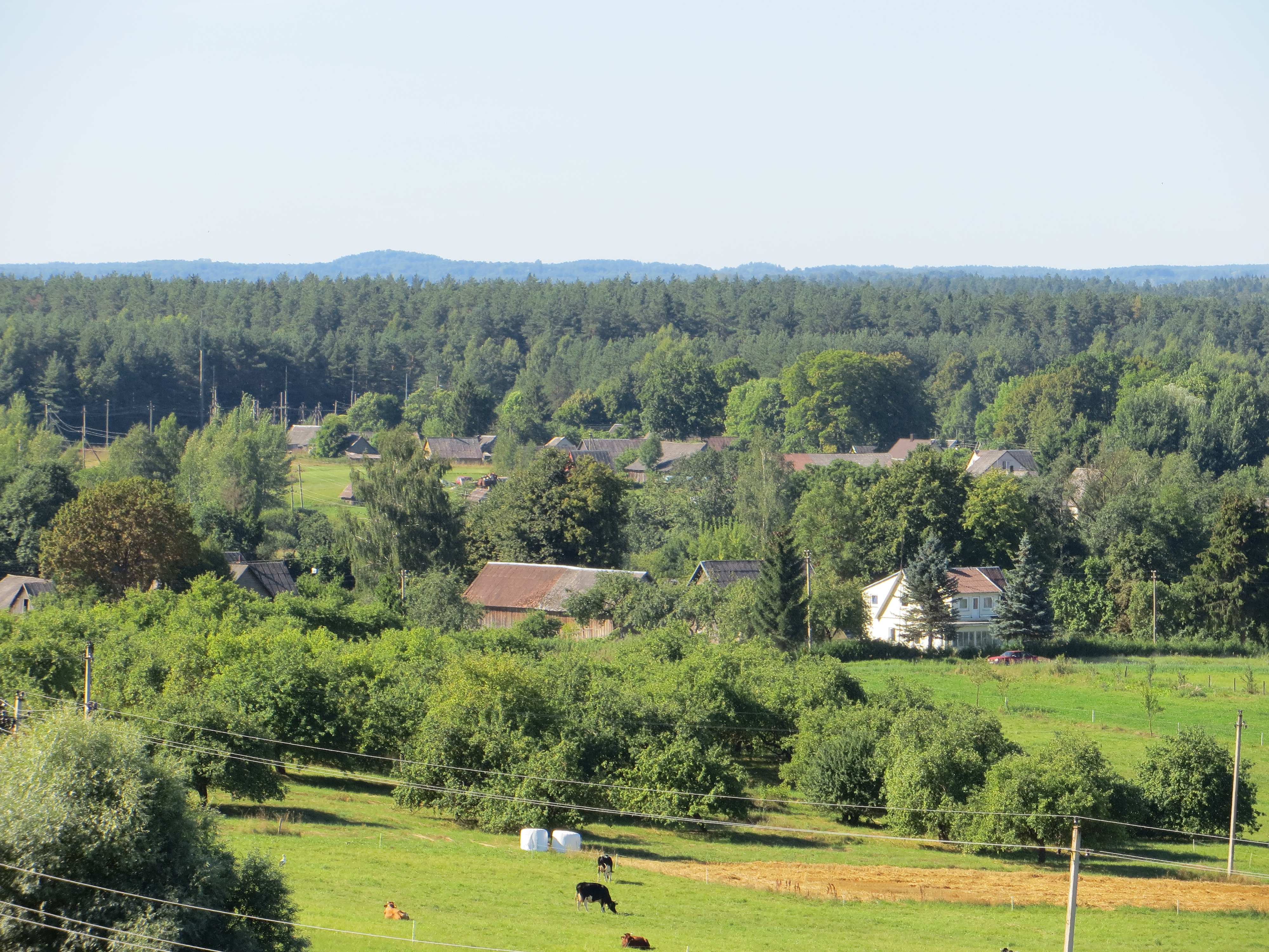 Padustėlis, Lithuania